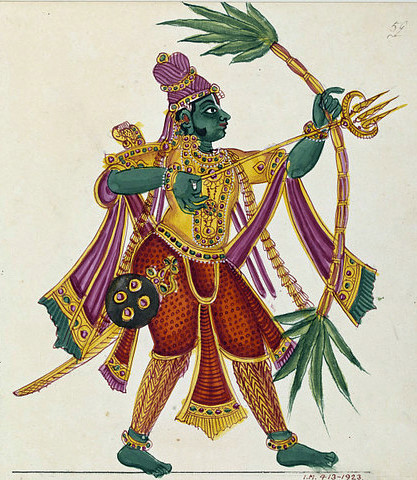 Kamadeva: A green-skinned warrior wearing a turban and armed with sword and buckler shoots an arrow from his sugar-cane bow